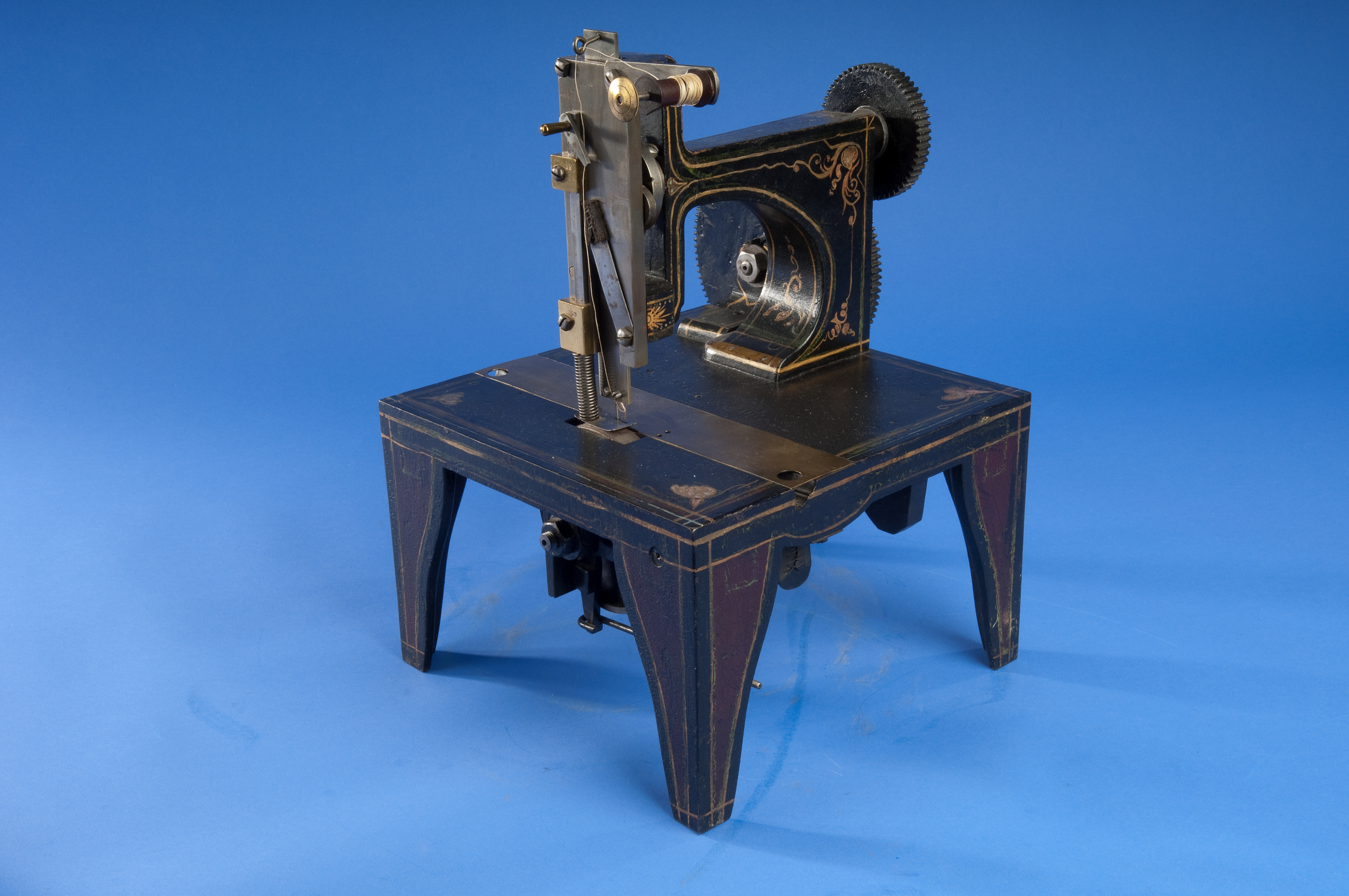 Patent model. Sewing machine, Singer, 1851, patent no. 8294. TE*T06054. 16 in x 17 in x 12 in; 40.64 cm x 43.18 cm x 30.48 cm.